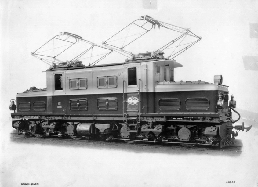 Meter-gauge Bo'Bo' electric locomotive for Vascongados railway. Factory image Nr. 266554 Brown, Boveri & Cie. (BBC)